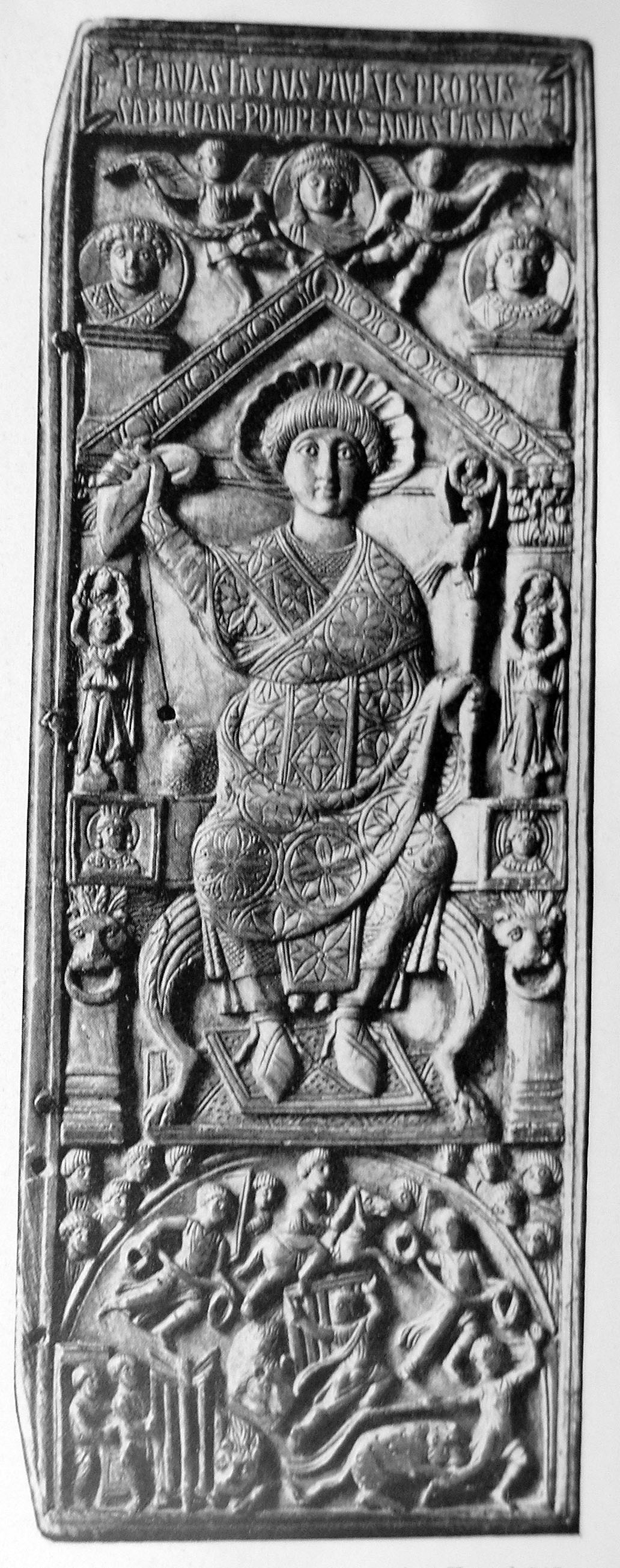 Consular diptych of Anastasius, consul in 517. Right leaf. Photograph from Ludwig von Sybel, Christliche Antike, vol. 2, Marburg, 1909.